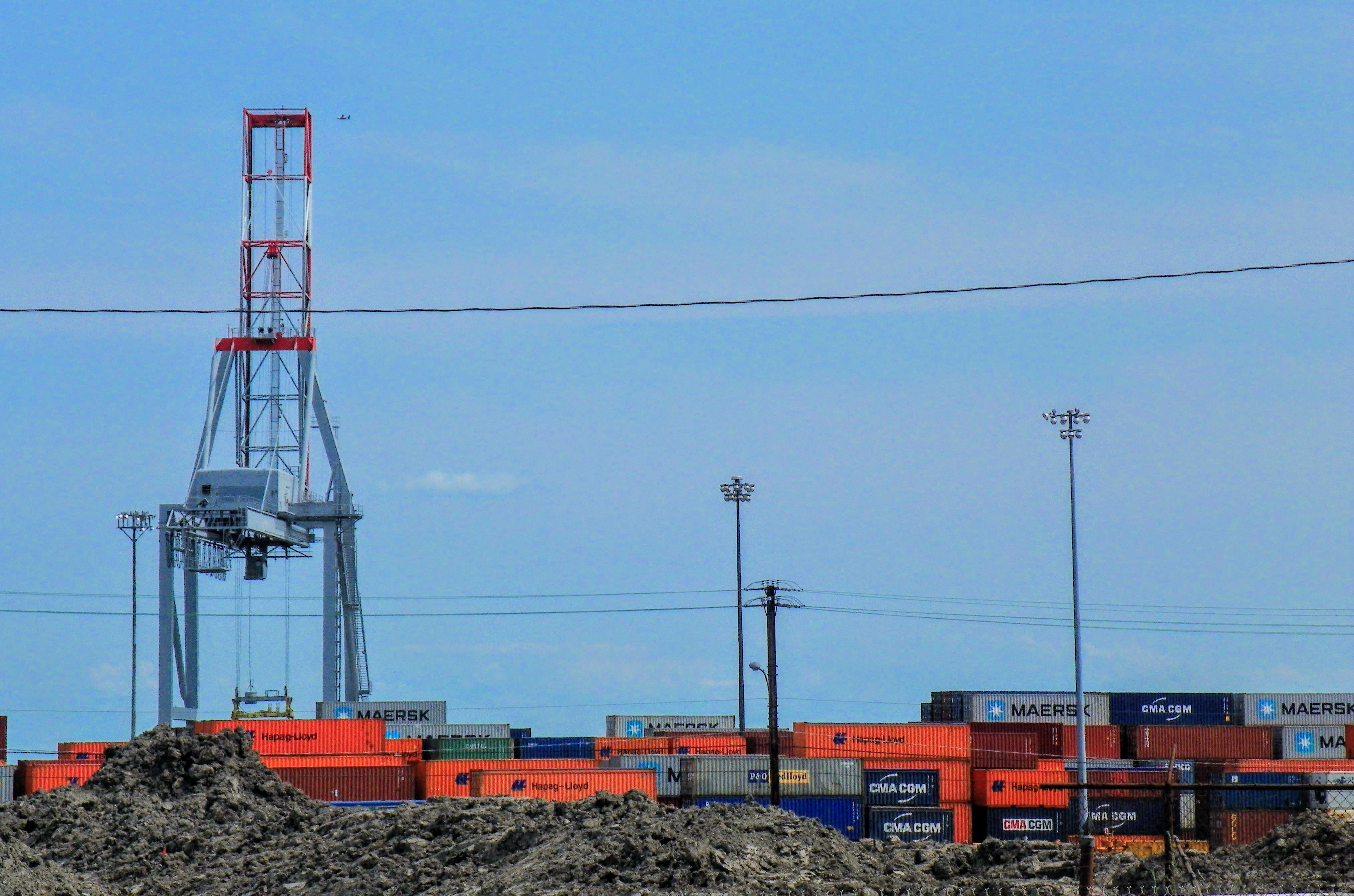 Crane and containers in the port of Montreal, seen from Notre-Dame street